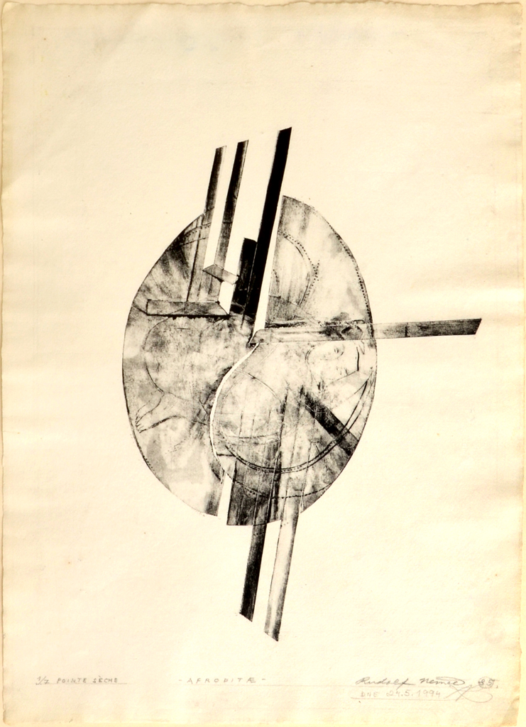 Rudolf Němec, Aphrodite (1985), dry point